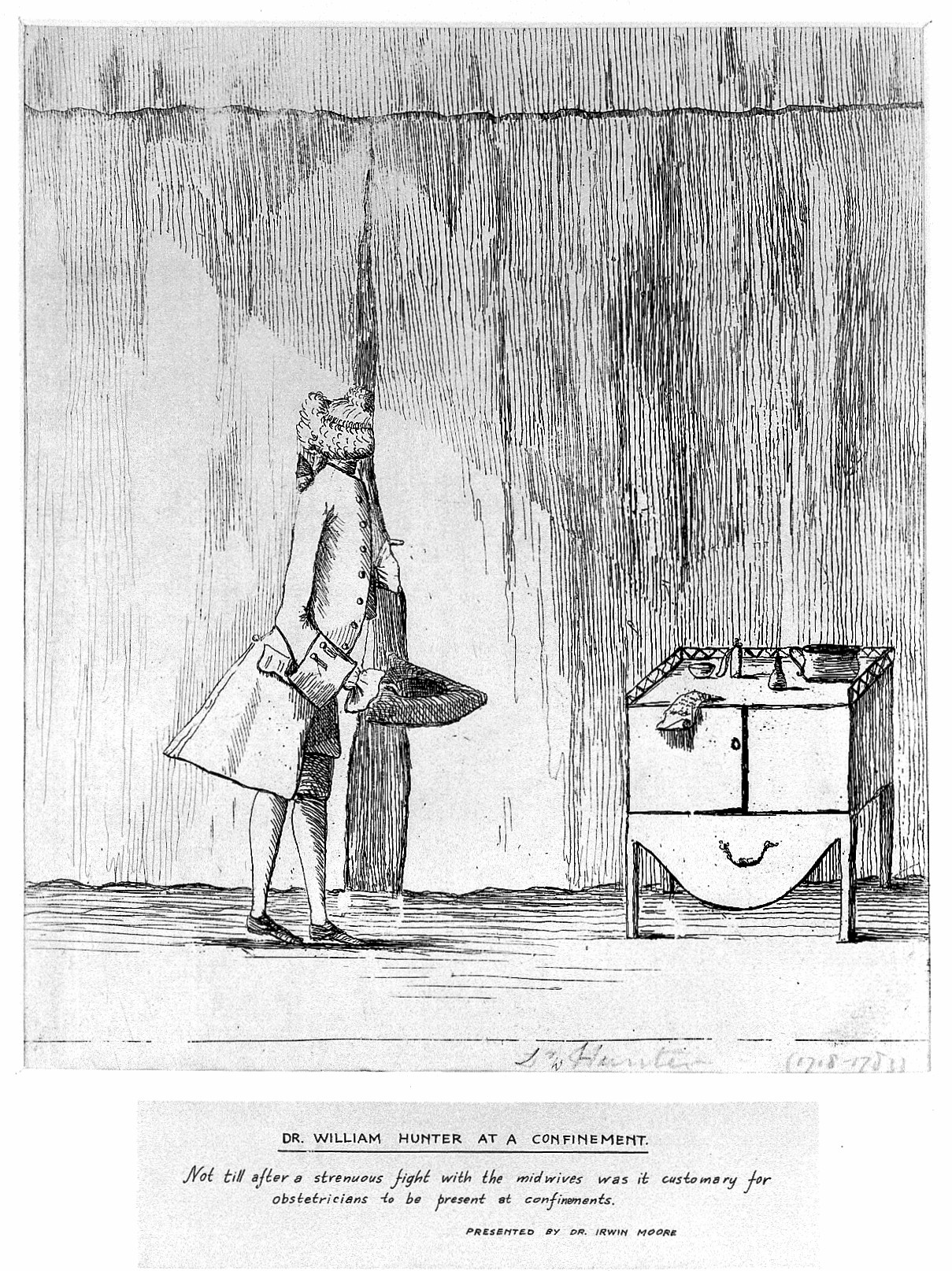 A man looking through a gap between curtains, a chest with medicines to right. Wellcome Images Keywords: William Hunter